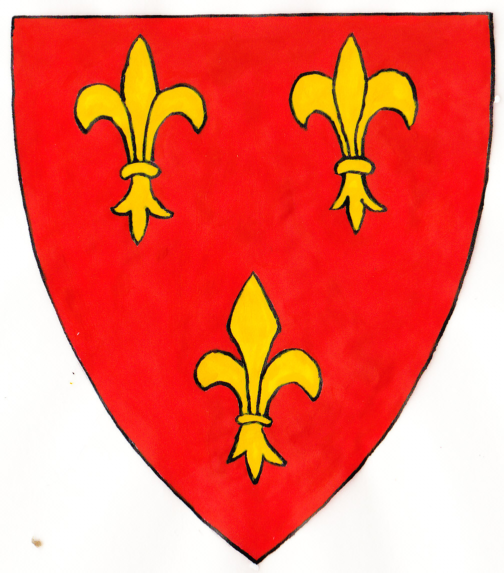 Arms of "Cantilupe Ancient", Gules, 3 fleurs-de-lys or. Copied from drawing of seal of William I de Cantilupe, printed in Planche, J.R., The Pursuivant of Arms, London, 1873, p.134, with tinctures added as described in 13th. c. rolls of arms. Arms of William I de Cantilupe(d.1239), William II de Cantilupe(d.1251), William III de Cantilupe(d.1254), George de Cantilupe(d.1273), Lord of Abergavenny. From the last quarter of 13th.c. the arms changed to jessant-de-lys, i.e. "Cantilupe Modern", as quartered by Baron Zouche of Harringworth, heir of Cantilupe of Abergavenny, see for example stained glass arms in Farleigh Hungerford Castle (see File:Farleigh Hungerford Castle 2015 38.jpg) .